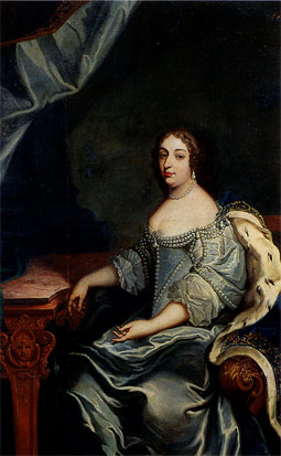 Louise Christine de Savoie-Carignan